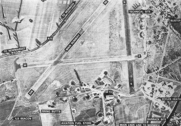 Aerial photograph of Snetterton Heath Airfield, England.